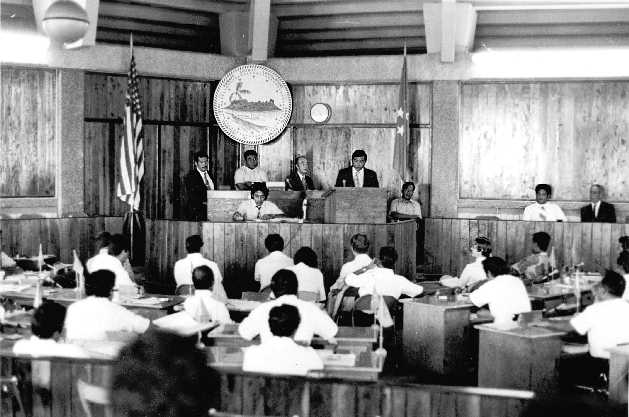 TTPI(Trust Territory of the Pacific Islands) Ponape District Legislature in session